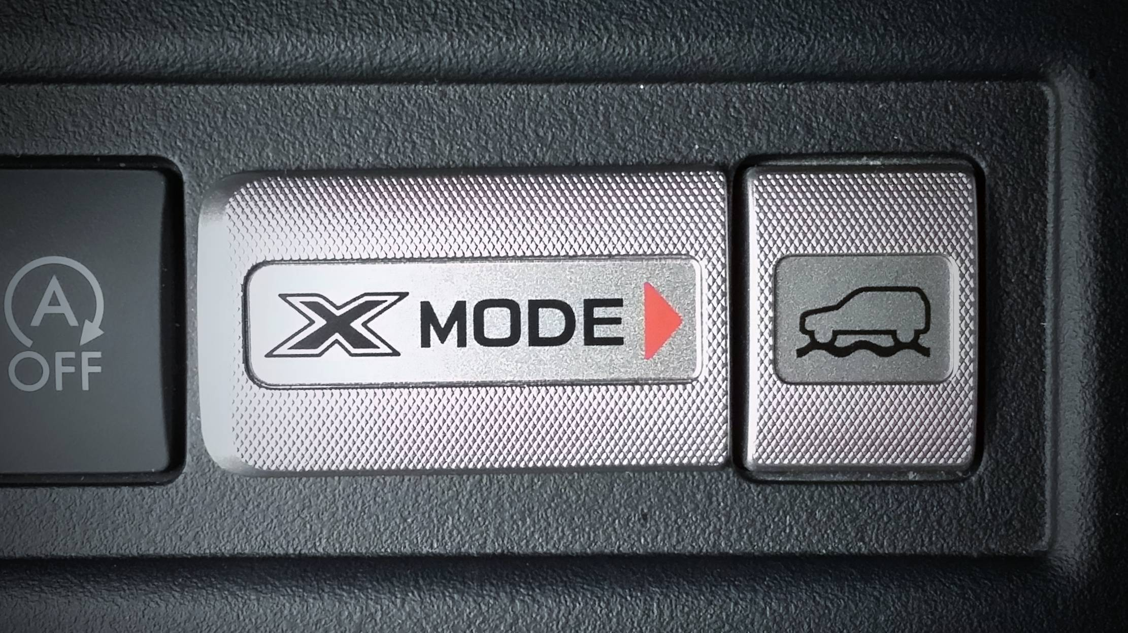 2016 Subaru Forester 2.0i-L EyeSight X-Mode switch.